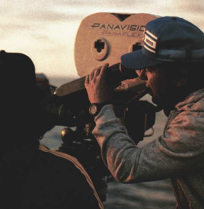 Filming of the movie "Top Gun" at Naval Air Station Miramar and NAS North Island, California (USA), in 1985.